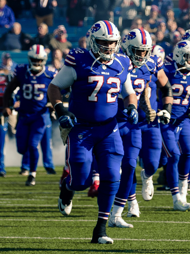 The Buffalo Bills take to the field before the start of the NFL's annual Salute to Service event before their game against the Chicago Bears game, Orchard Park, N.Y., Nov. 4, 2018. Service members from all branches of the military were honored and unfurled an American flag over the field. (U.S. Air National Guard photo by Staff Sgt. Ryan Campbell)